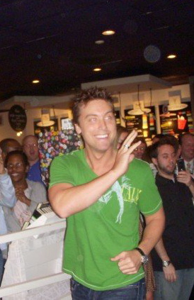 Lance Bass at OutWRITE in Atlanta, GA promoting his book "Out of Sync"